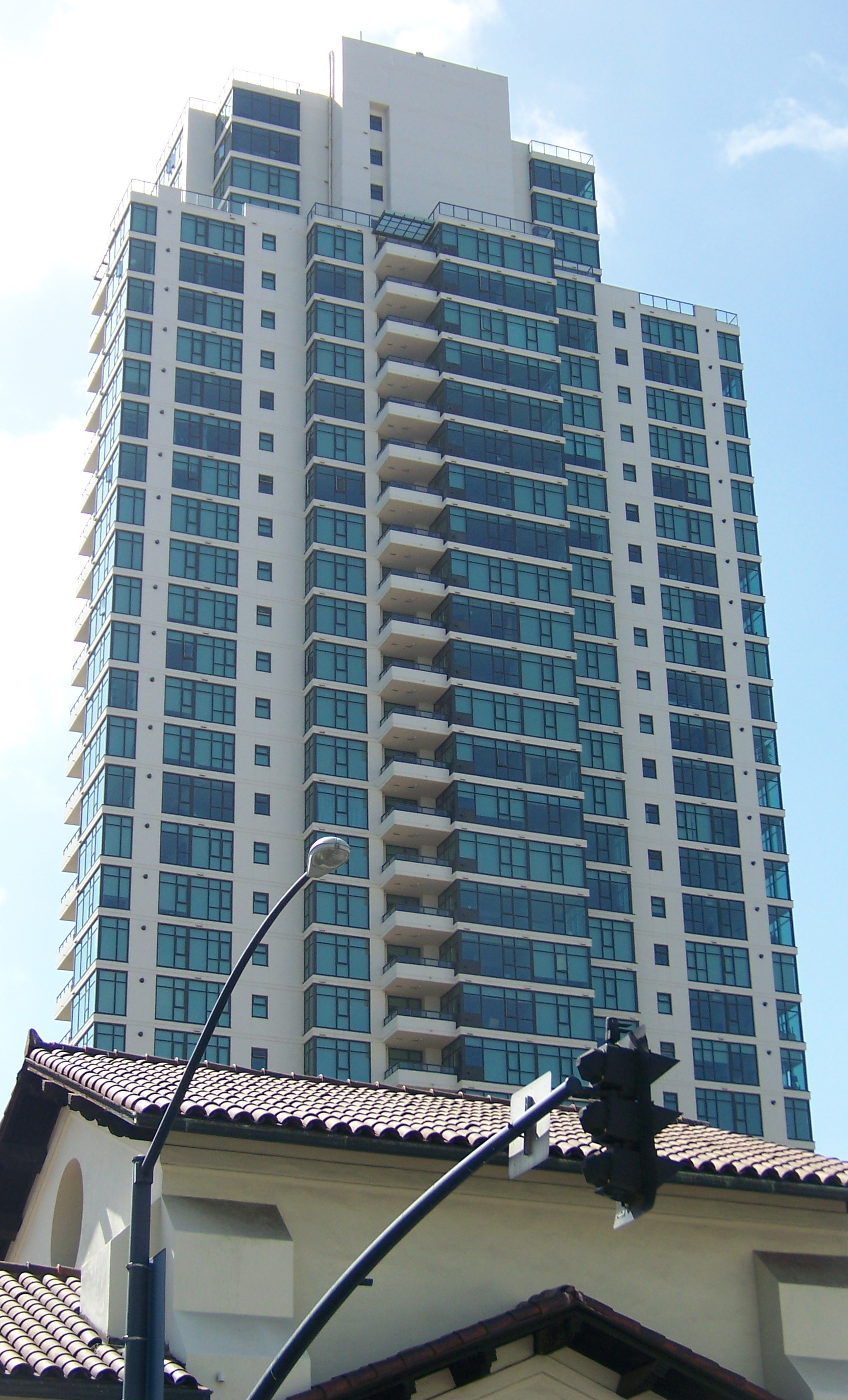 The Grande South at Santa Fe Place skyscraper in San Diego, California. Construction was completed in 2004.